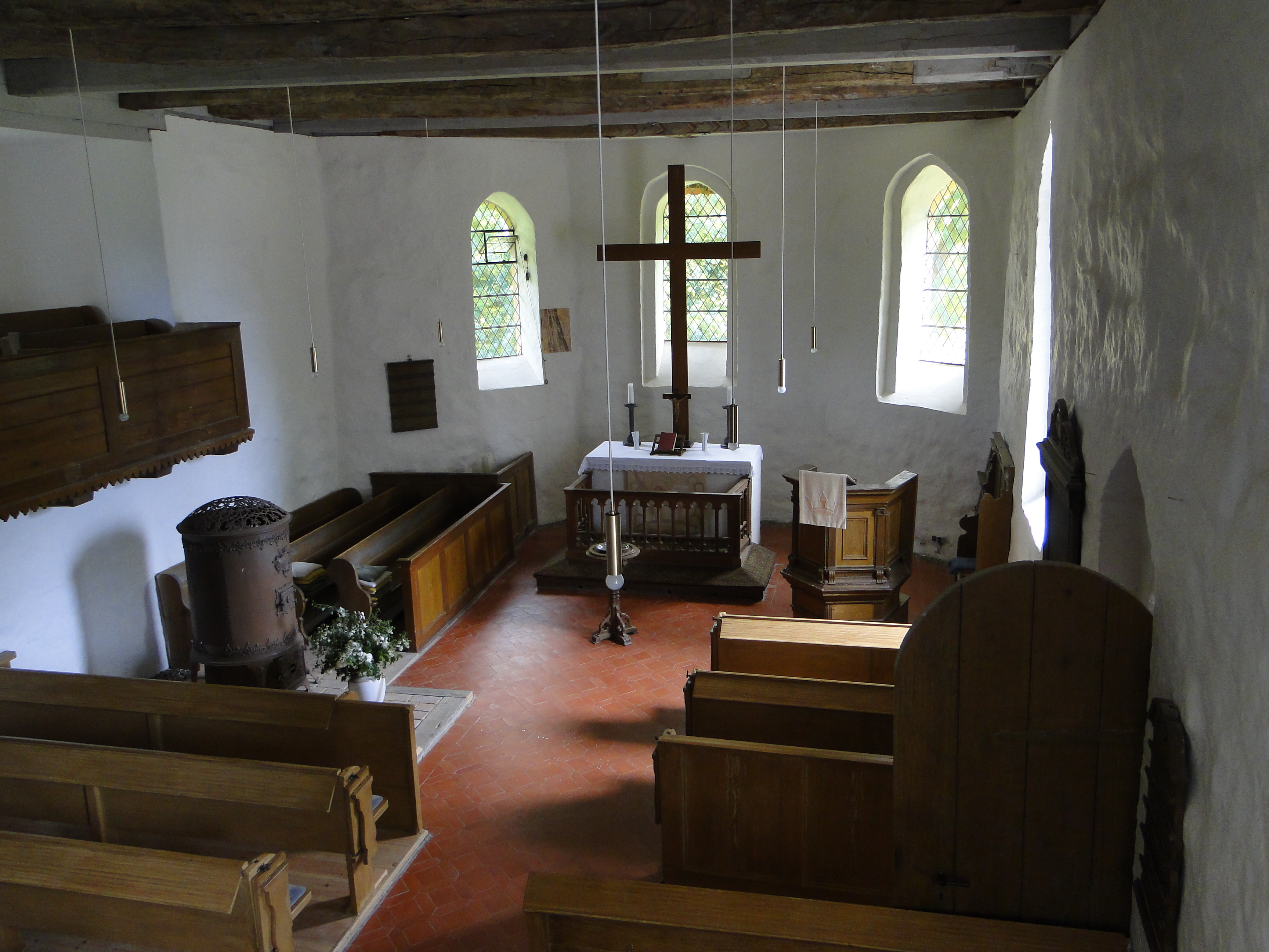 Church in Techentin, district Ludwigslust-Parchim, Mecklenburg-Vorpommern, Germany